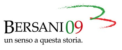 Bersani 09 logo.